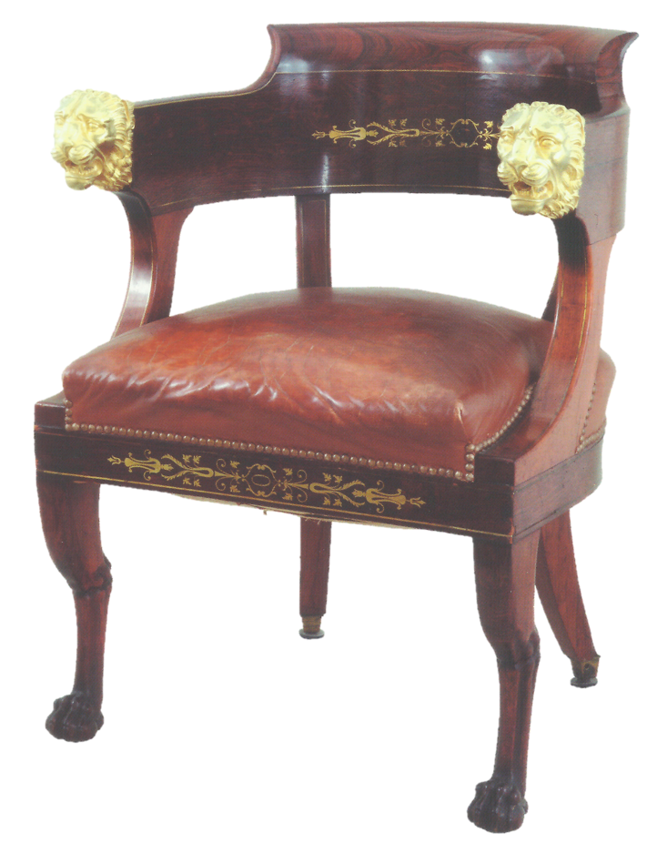 The Chair of the Lions ("Cadeira dos Leões"), the chair of the President of Portugal, in his office.